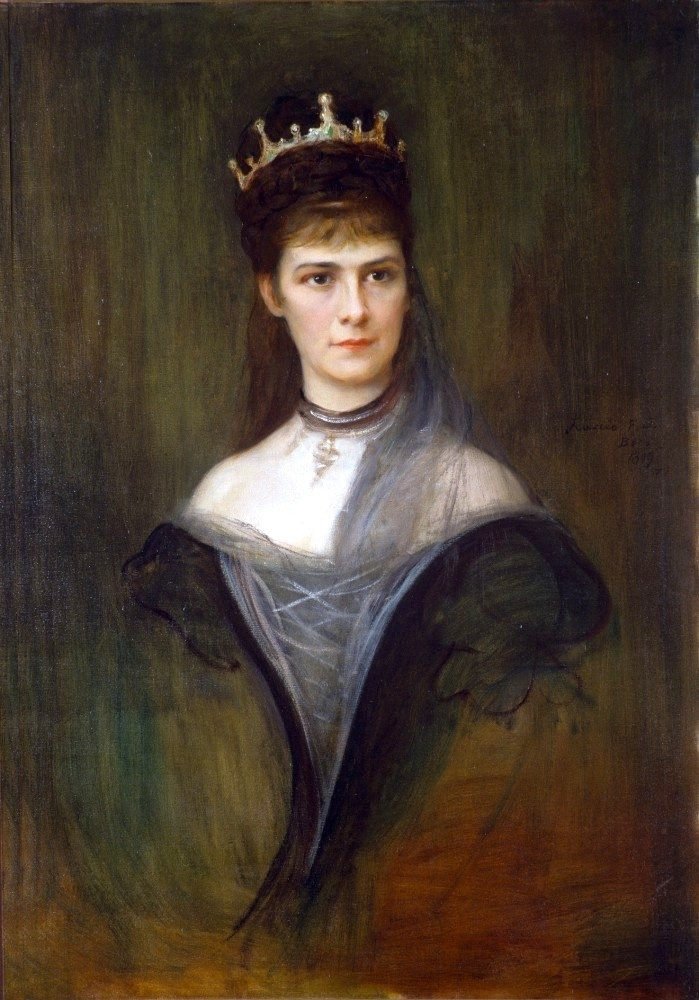 Empress Elisabeth of Austria, Queen of Hungary and Bohemia in mourning, wearing traditional Hungarian court dress. The painting was made after the Queen's death by Philip Alexius de László.